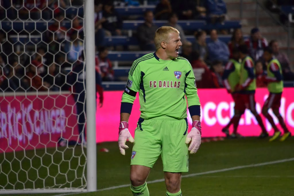 Kevin Hartman of FC Dallas